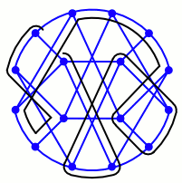 Hamilton path graph sample